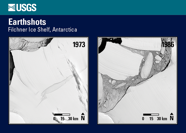 The break off of Filchner Ice Shelf, Antarctica. Credit: U.S. Geological Survey Department of the Interior/USGS Landsat